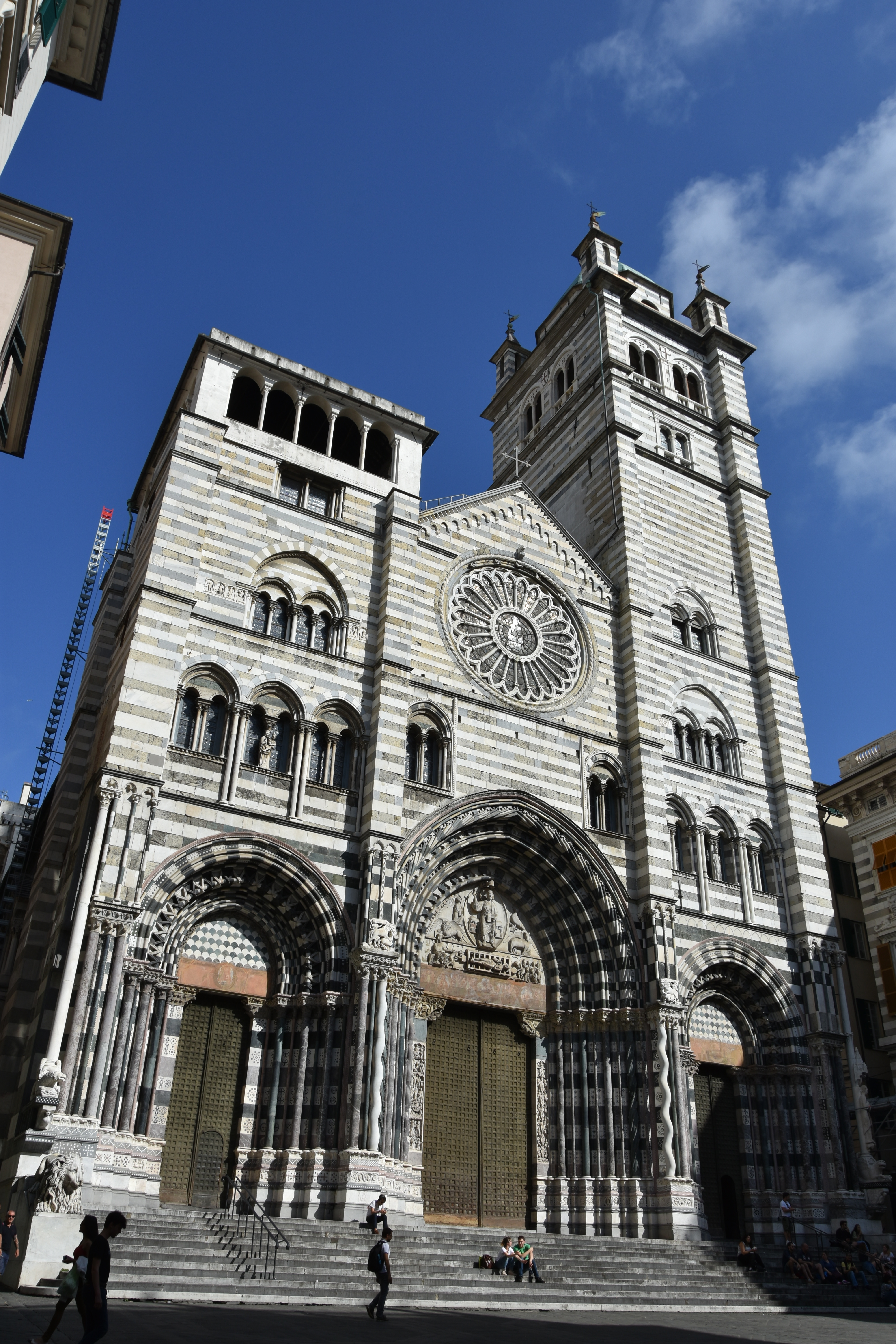 Genoa Cathedral Western facade